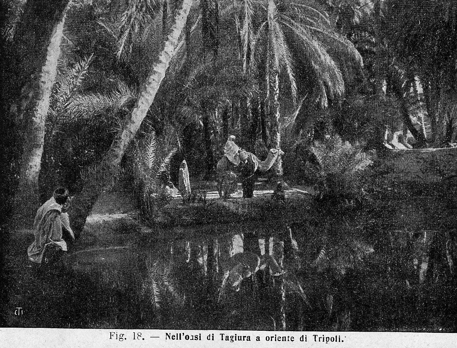 Tajura Oasis in 1913. In the coastal Tripolitania region - present day northwest Libya.